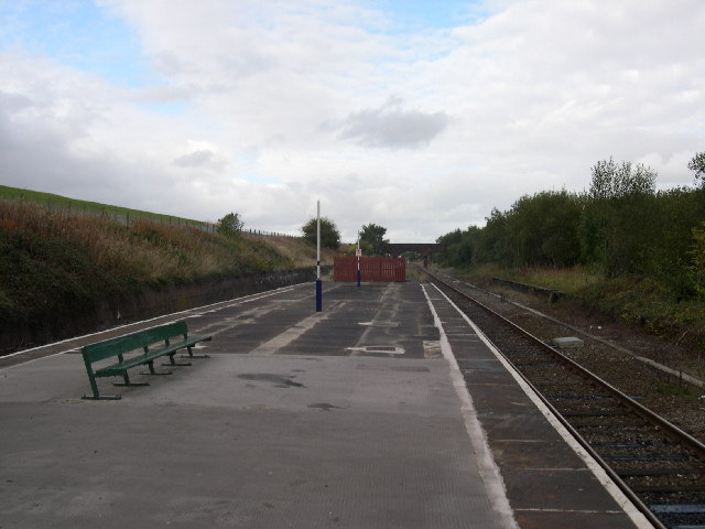 Denton Railway Station